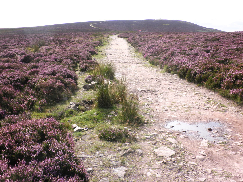 Ridge path, Dunkery Hill